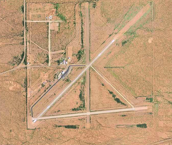 USGS digital orthophoto of Culberson County Airport in Texas